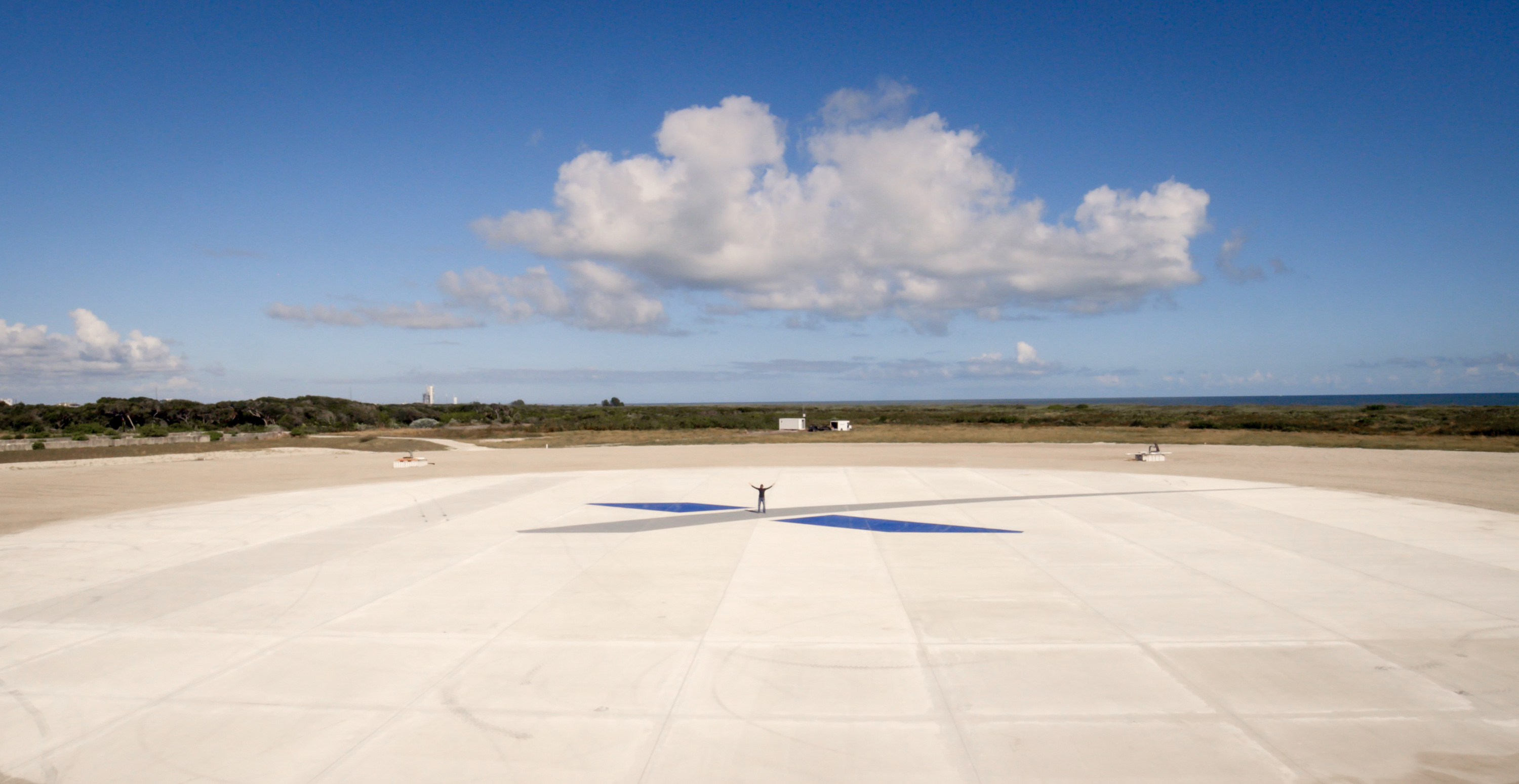 First look at our new Landing Zone 1.